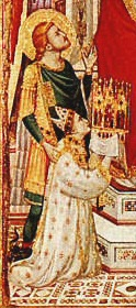 The Stefaneschi Triptych, detail from middle panel of the front face, created by Giotto di Bondone in 1320 for Cardinal Jacopo